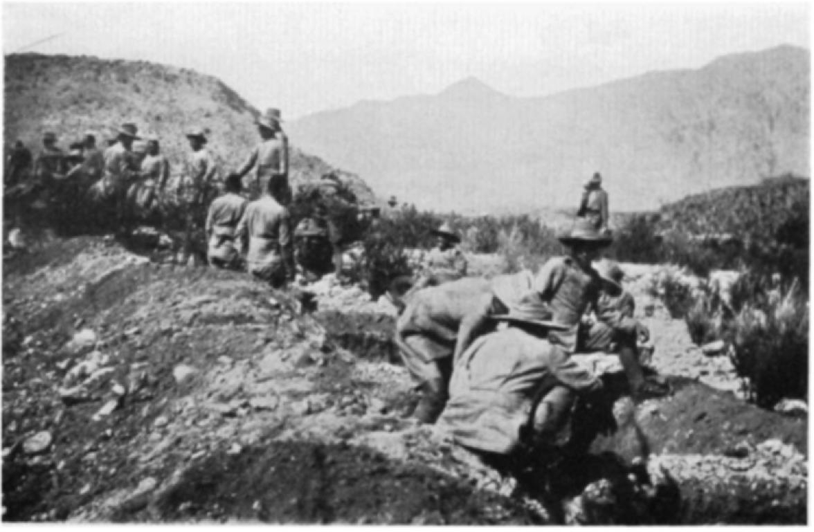 Beginning of Week-end War, 1908 : 2/5th Digging in on reaching Walai